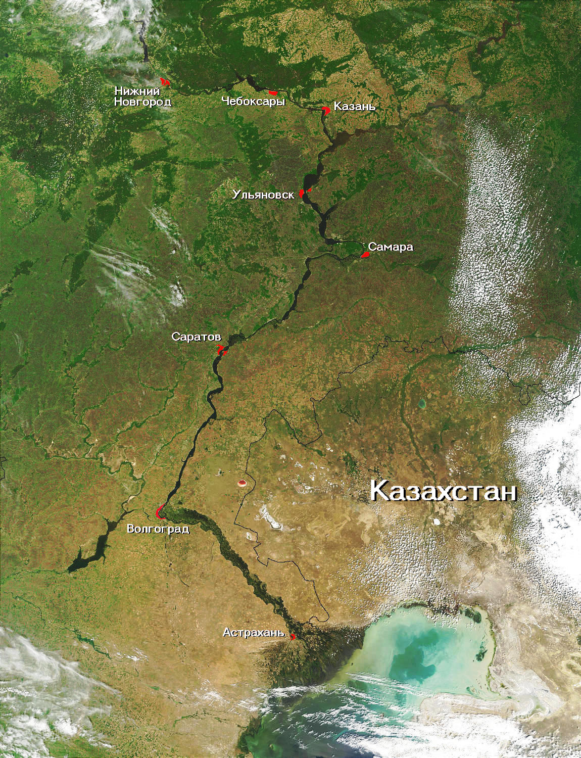 Russian river Volga from NASA satellite. Main cities along Volga are marked.